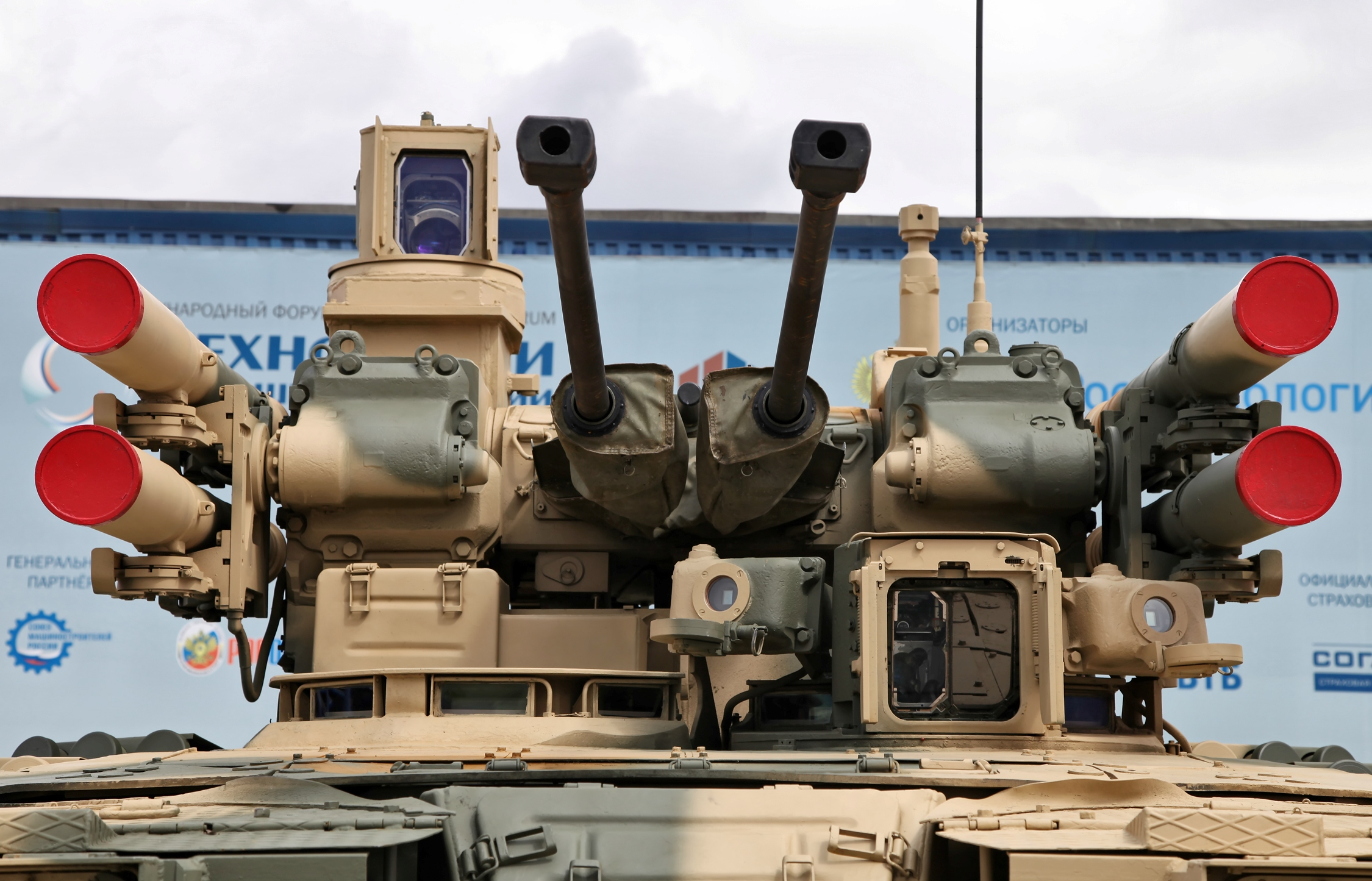 Tank support vehicle BMPT at Engineering Technologies 2012 international forum.